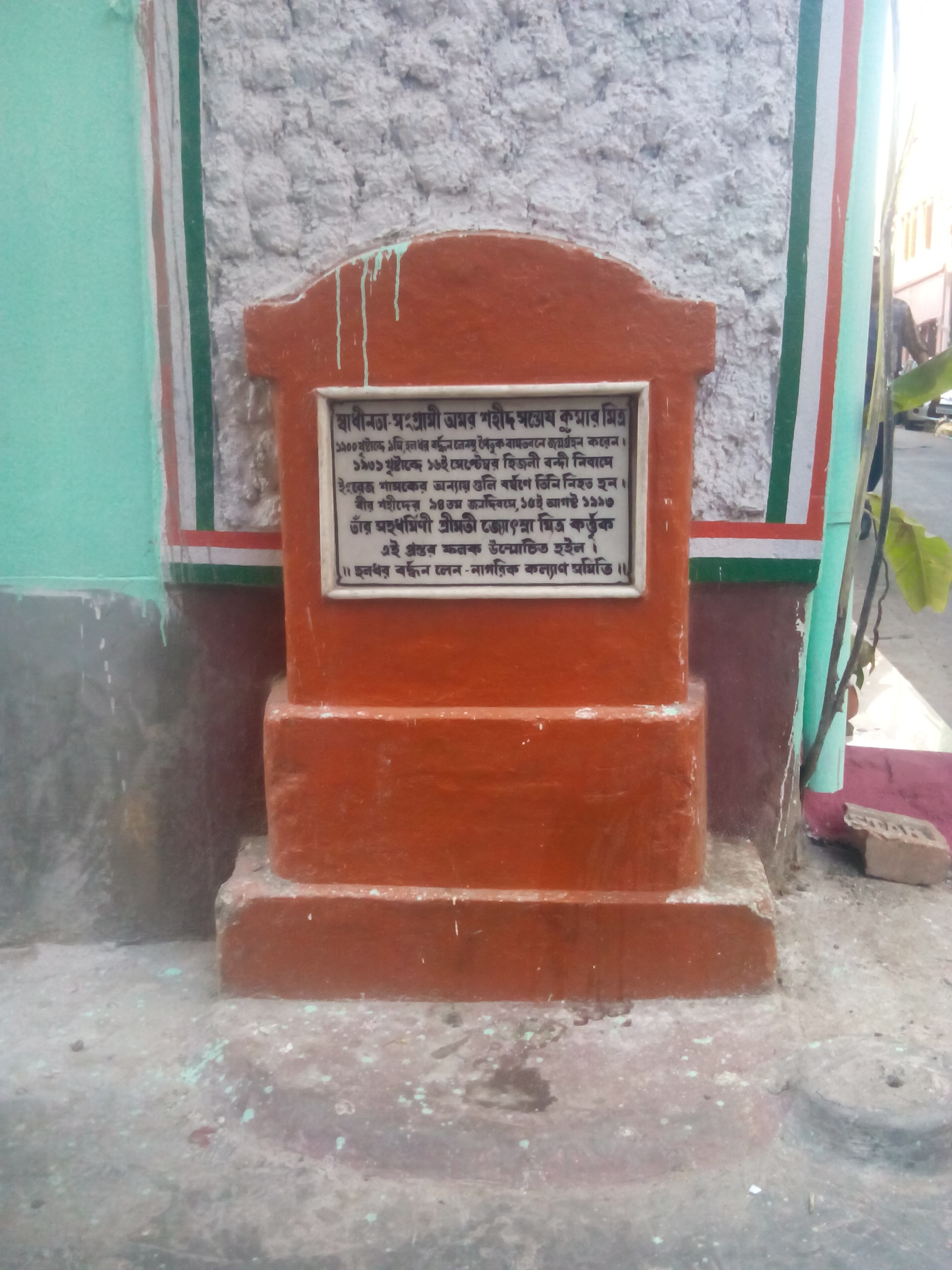 Santosh kumar mitra martyr in kolkata